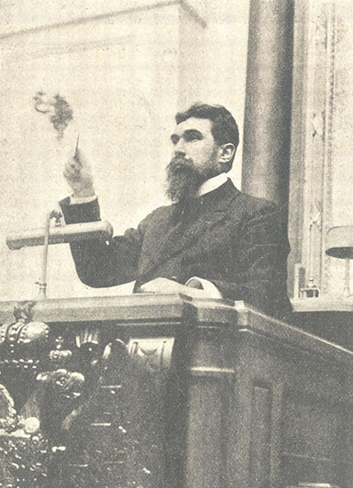 V. I. Dziubinsky in the Duma